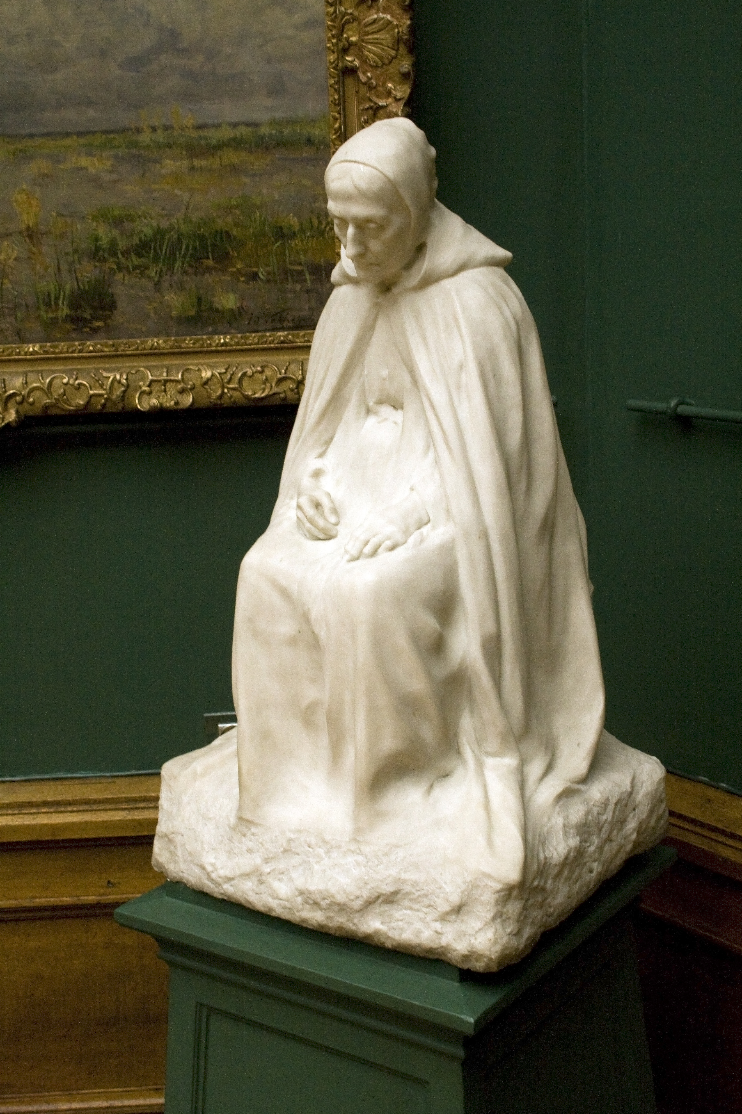 Old Lady in Blankenberghe, or Grandma - Sculpture of Charlier in the Charlier Museum